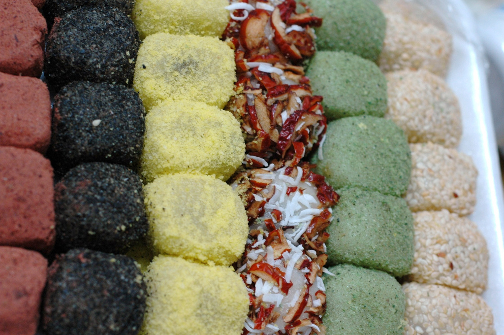 Gyeongdan, a variety of tteok, Korean rice cake.